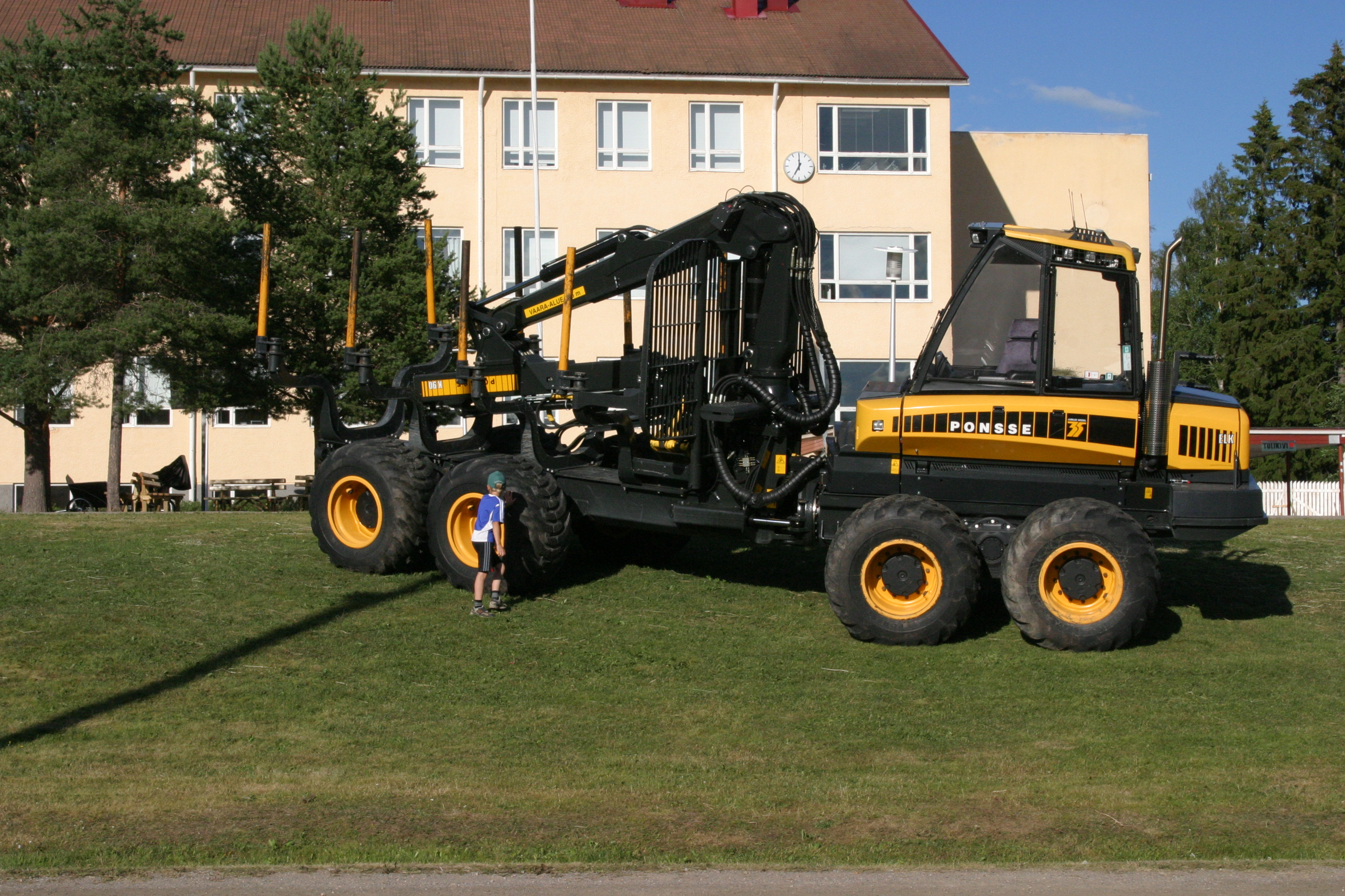 A Ponsse forest machine at Vihreät Niityt ("Green fields") music festival in Kiuruvesi, Finland